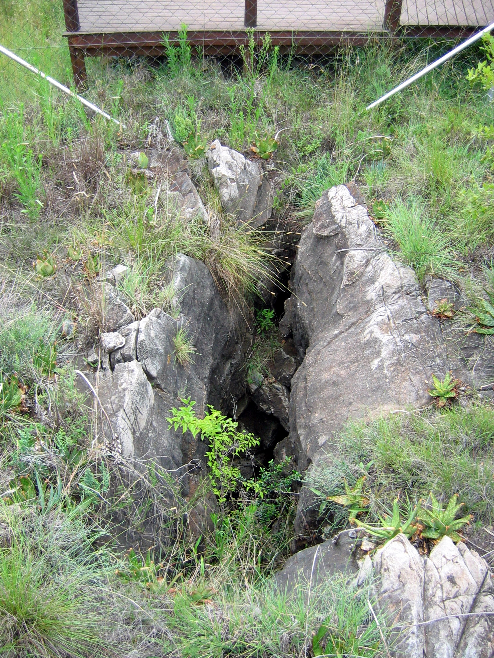 Deathtrap at Sterkfontein Caves.